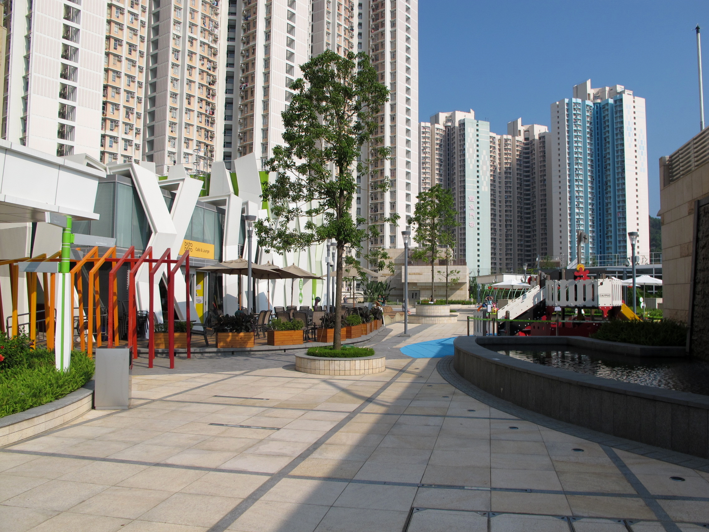 Domain R floor, Party Domain